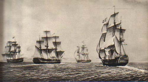 Commercial ships French East India Company, Paris, Musée national de la Marine.